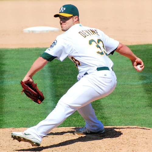 Description Joey Divine pitches against the Chicago White Sox DateAugust 16, 2008SourceI created this work entirely by myself.AuthorJames Venes 08:07, 17 August 2008 . . Cakeordeath34 . . 500×500 (175 KB) Joey Divine pitches against the Chicago White Sox